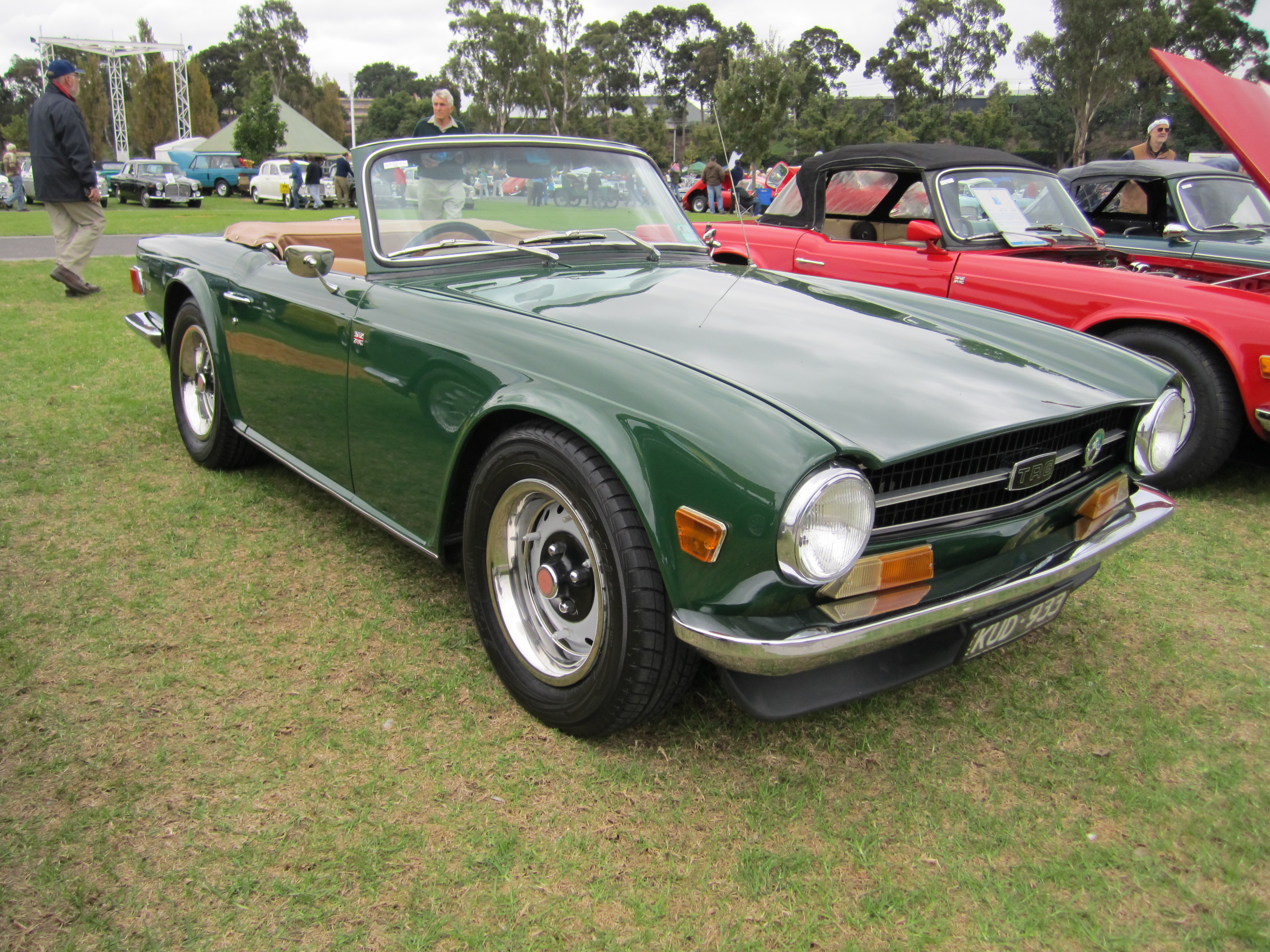 Built from 1969-76. Engine; 2496cc 6 cyl. The TR6 got a more squared off front and rear.